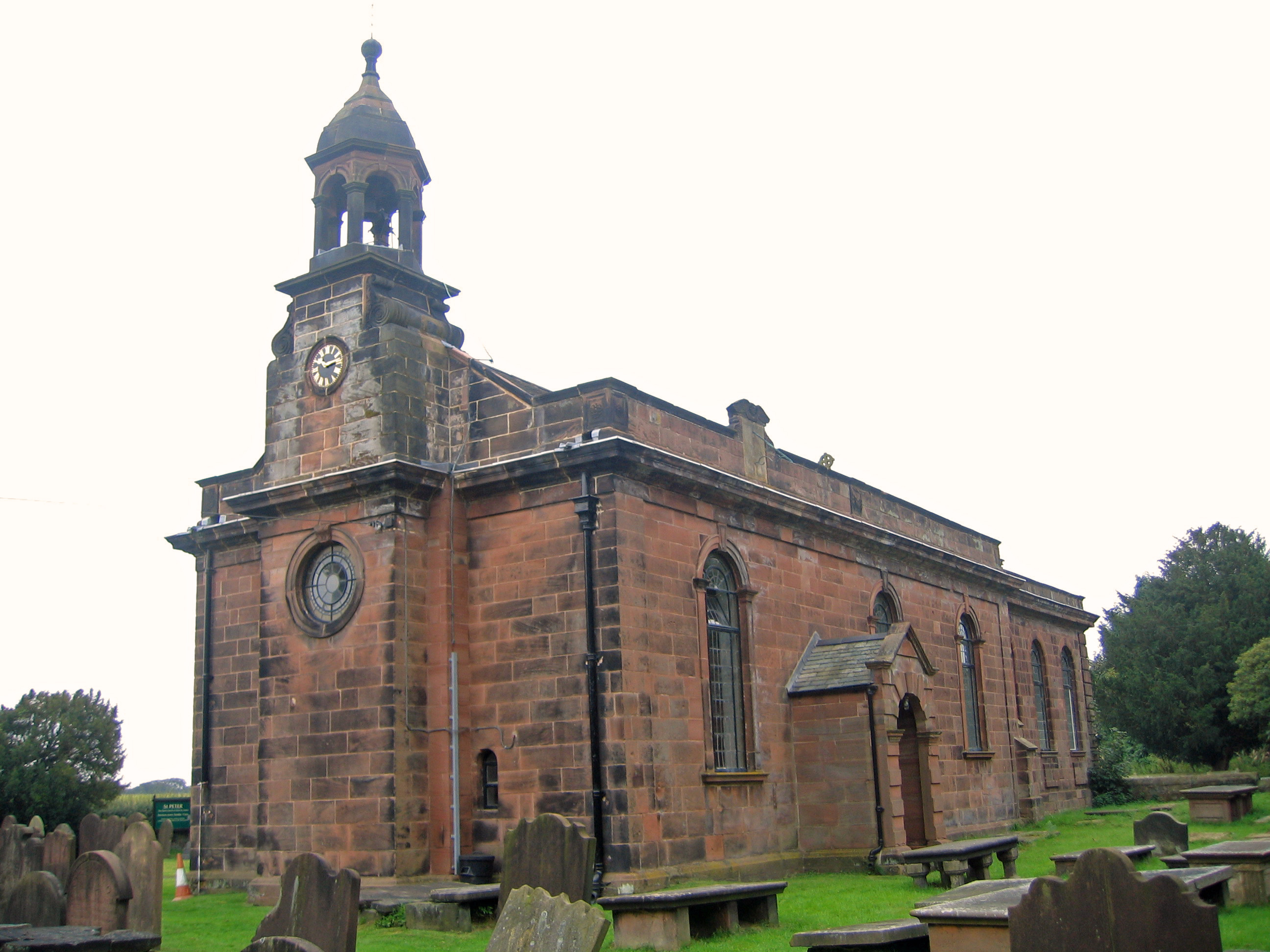 Photograph from the southwest